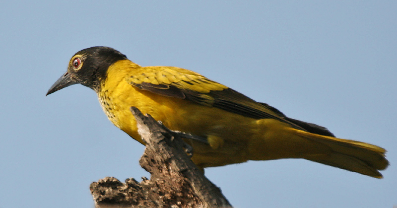 Black-hooded Oriole Oriolus xanthornus in Kolkata, West Bengal, India.